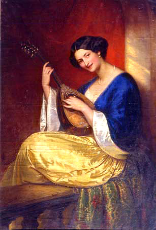 1851 Painting by Julie Wilhelmine Hagen-Schwarz featuring a girl with a mandolin, called in Estonian, Mandoliinmängija (Mandolin Player).